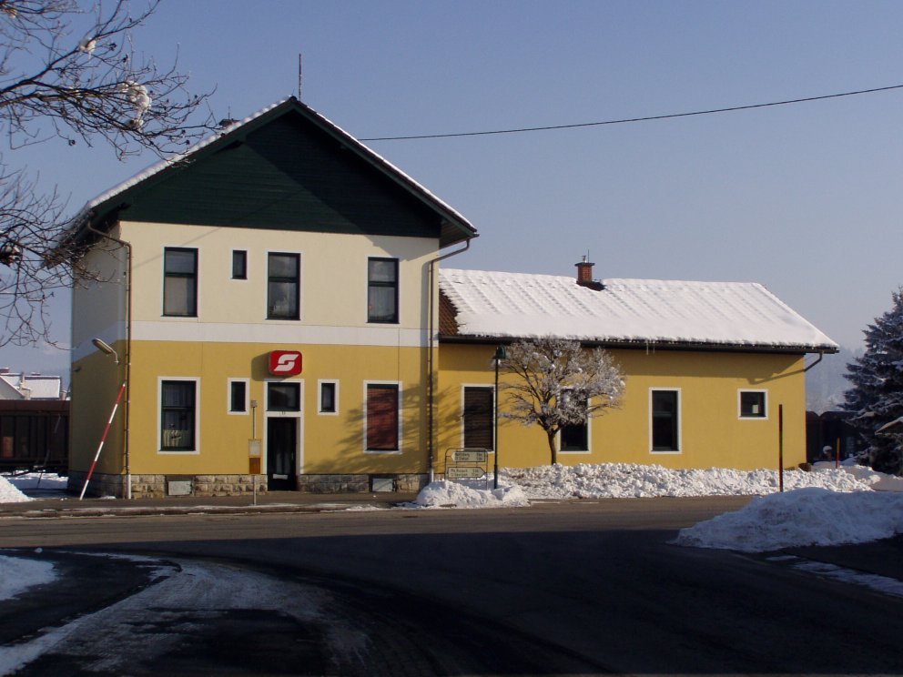 Railway station Sankt Andrä im Lavanttal, Carinthia, Austria